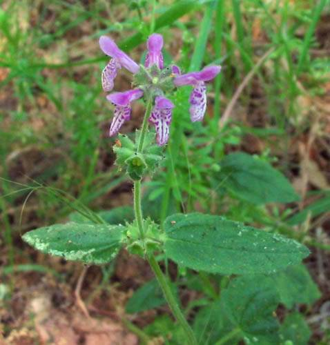 Stachys bullata — California hedgenettle, endemic. On the New Backbone trail at Circle X Ranch Park — in the Santa Monica Mountains National Recreation Area, California.